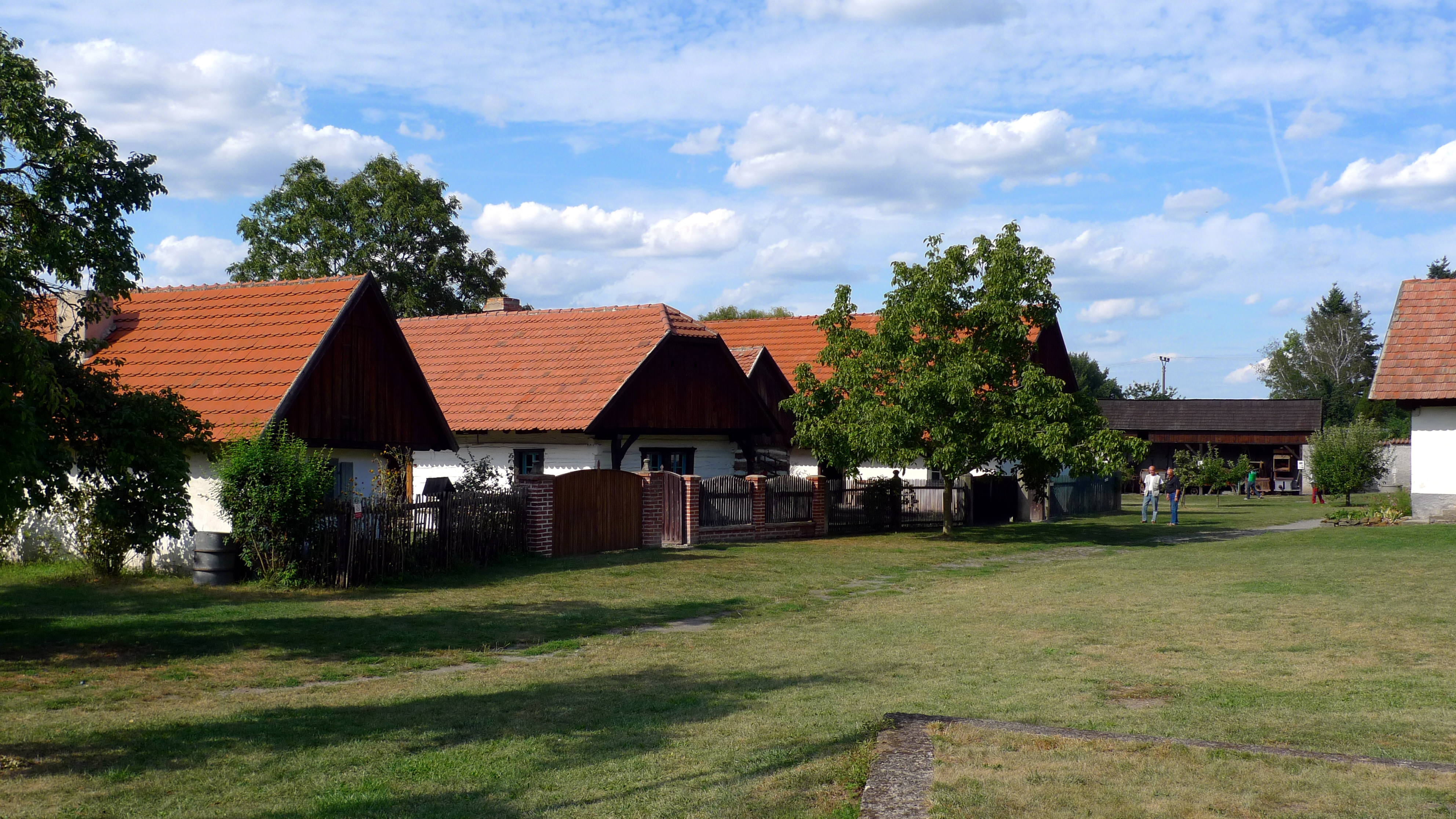 Open air museum in Přerov nad Labem, Czech Republic Česky: Skanzen polabské architektury v Přerově nad Labem